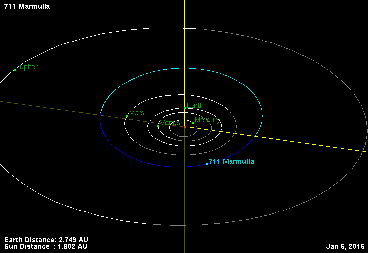 Orbit of asteroid 711 Marmulla and his location in Solar system